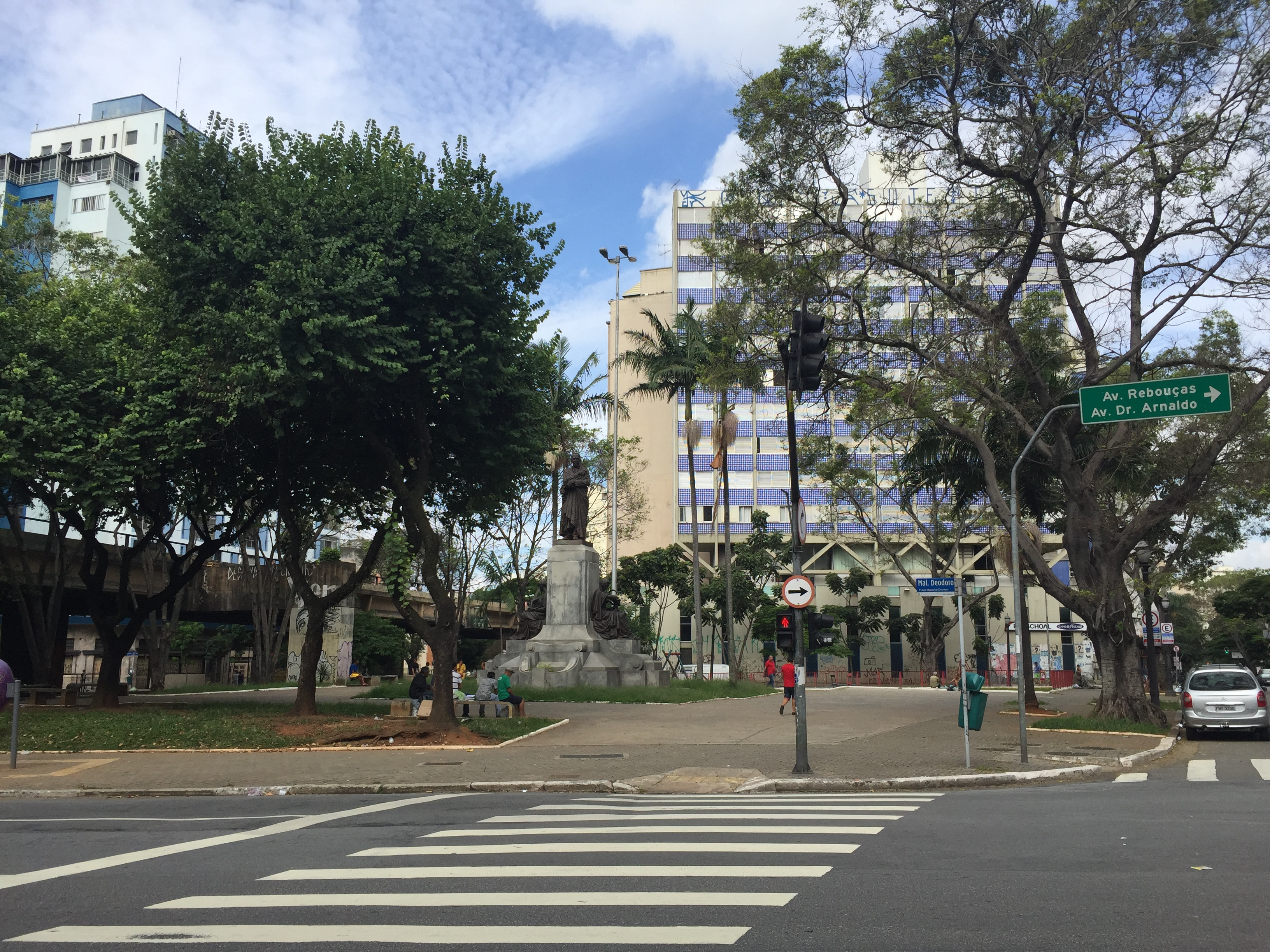 View of the entire monument to Luiz Pereira Barreto, in São Paulo, Brazil.